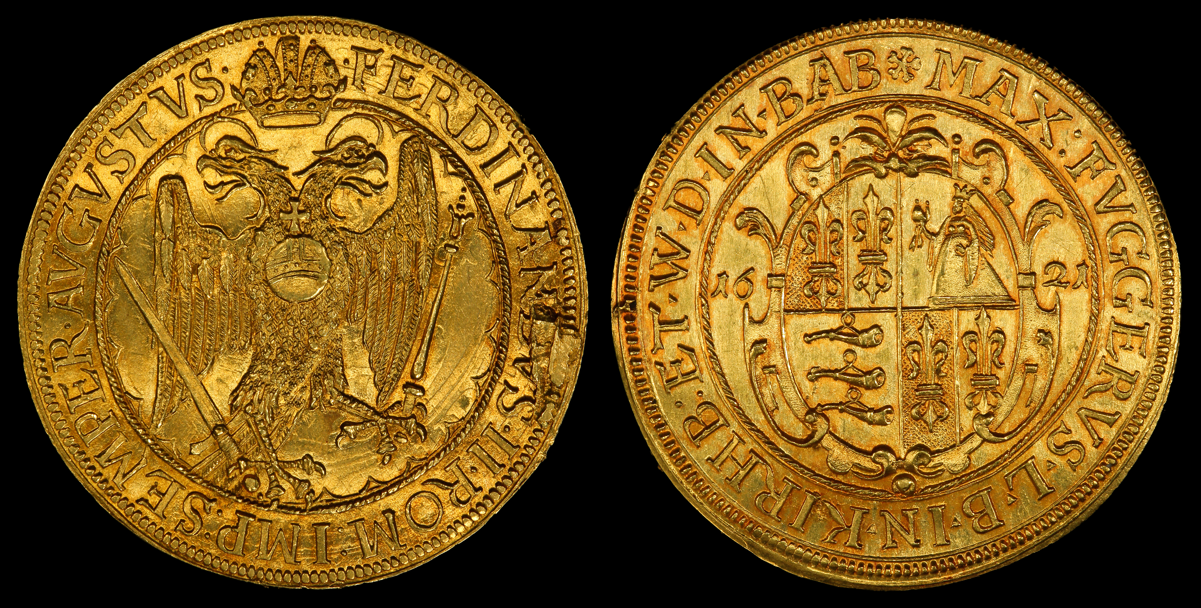 German States Fugger 1621 10 Ducats